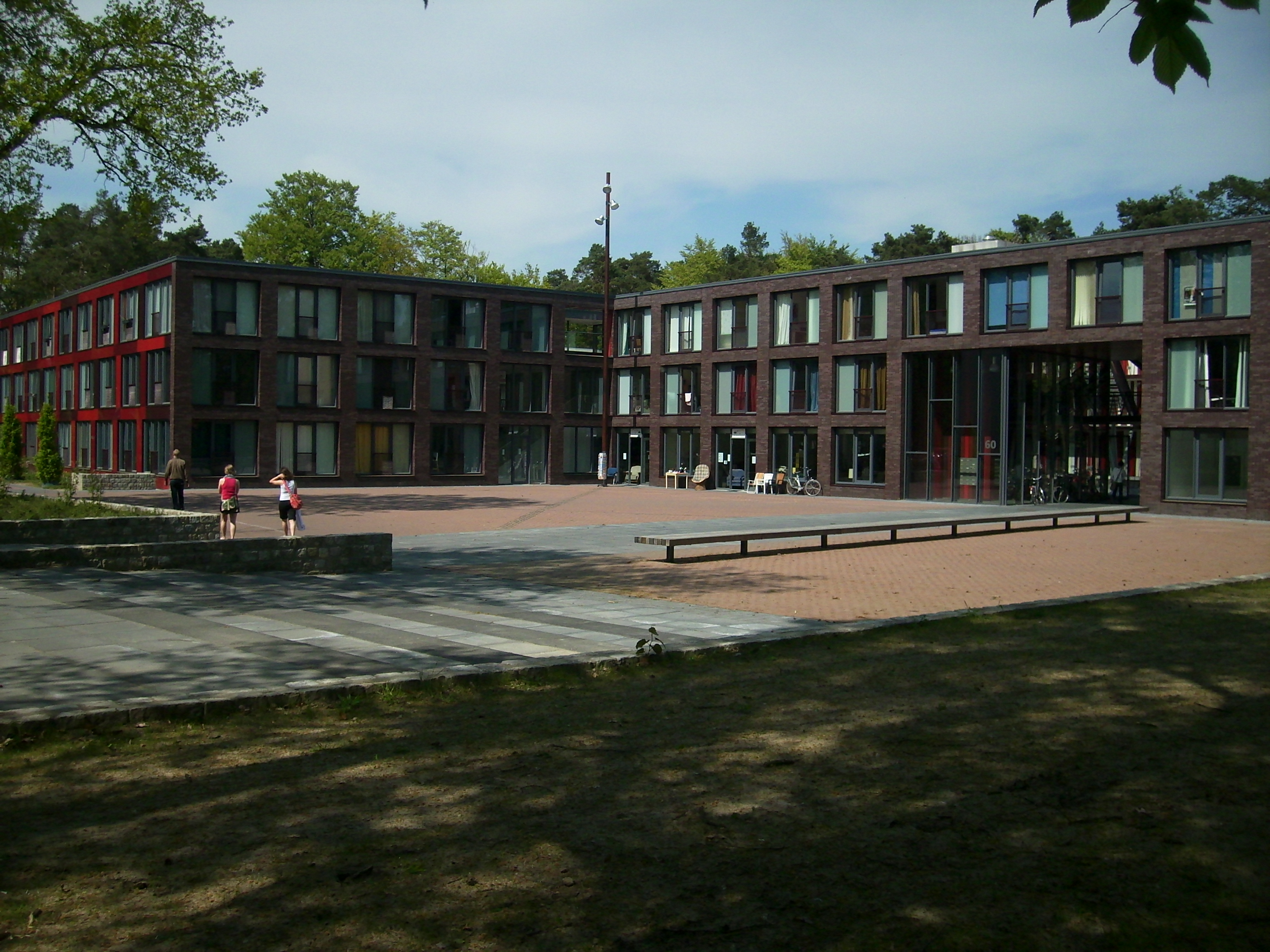 Box, Calslaan dormitories of the University of Twente.